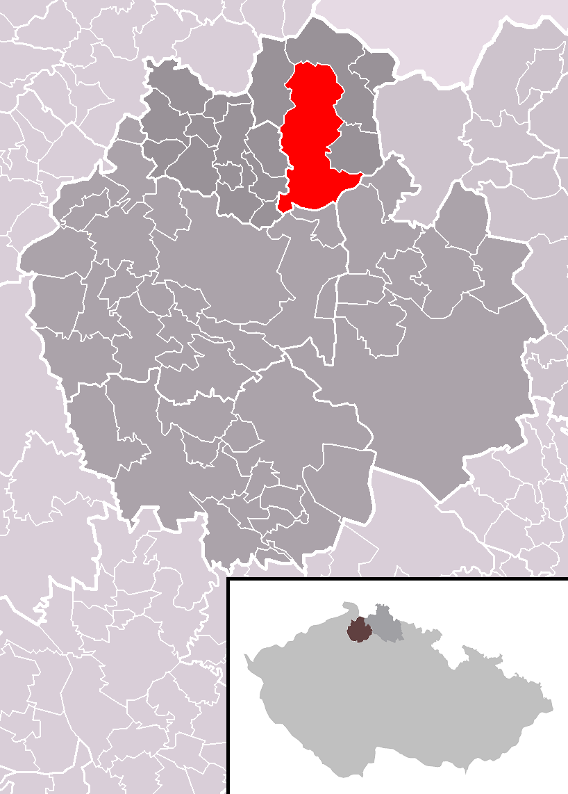 Location of Cvikov town within Česká Lípa District and administrative area of Nový Bor as a Municipality with Extended Competence.